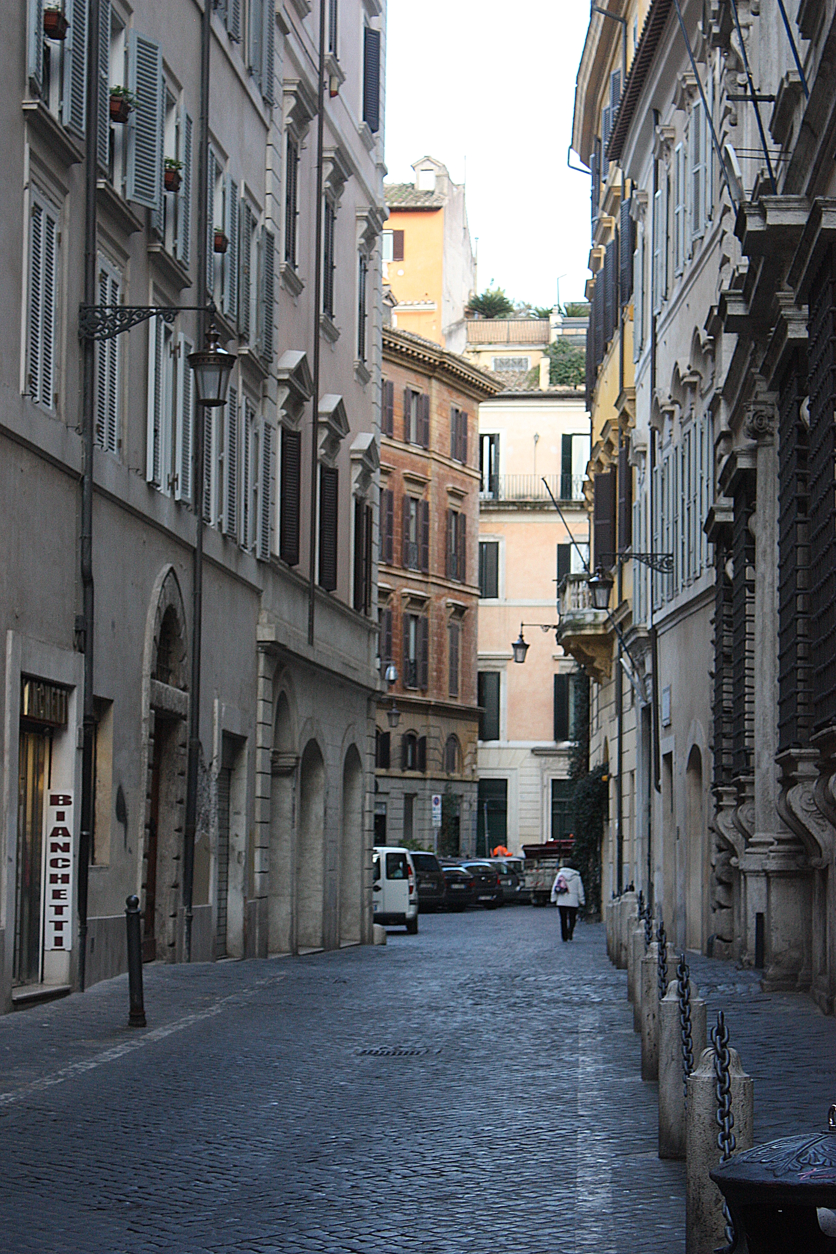 Rome, the street Via della Pigna